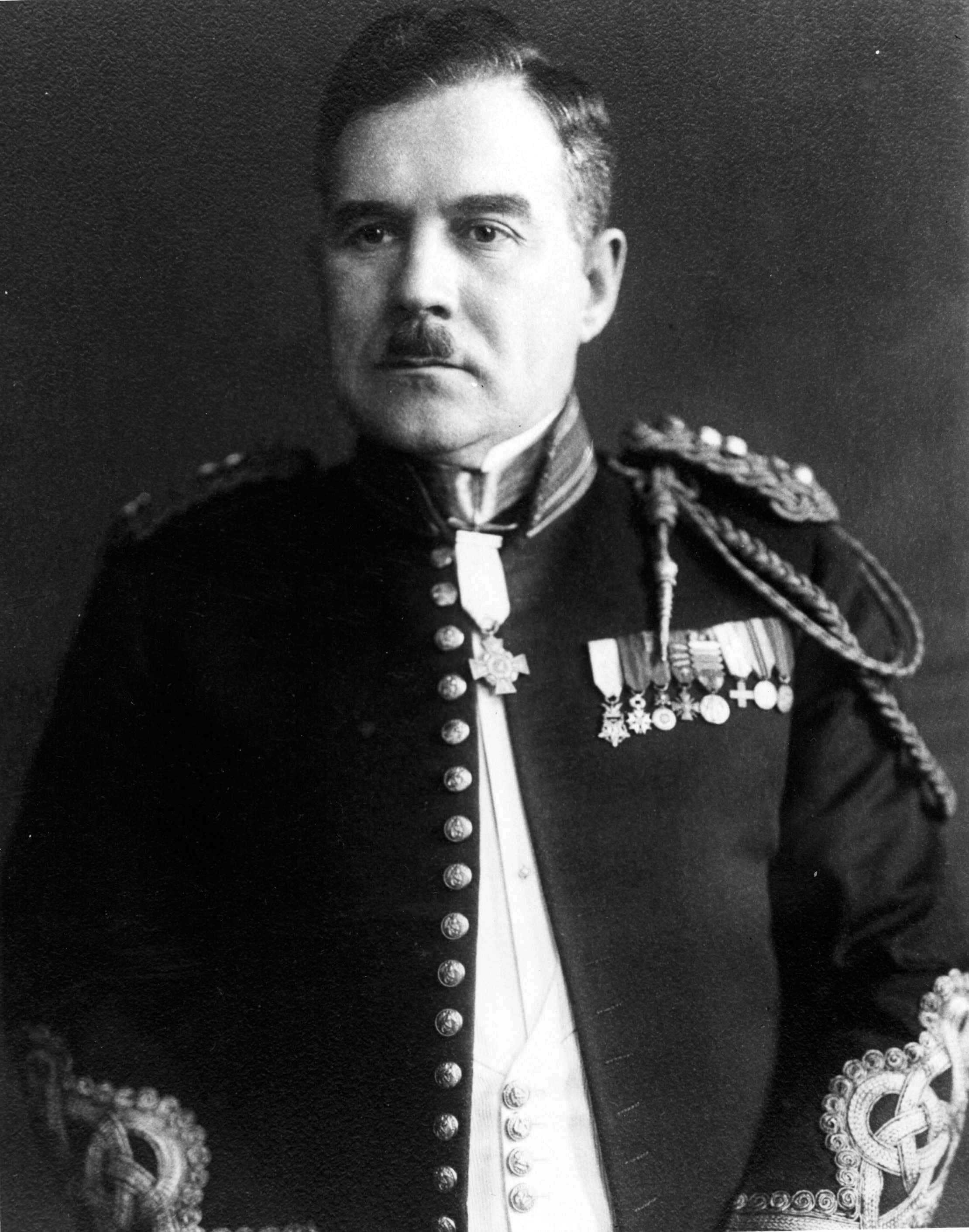 Photo #: NH 105316 Captain Louis Cukela, USMC Halftone reproduction of a photograph, copied from the official publication "Medal of Honor, 1861-1949, The Navy", page 115. Louis Cukela received the Medal of Honor for "extraordinary heroism" on 18 July 1918, during combat action in the Forest de Retz, near Viller-Cottertes, France. In this photograph, he is wearing the World War I Navy Medal of Honor ("Tiffany Cross") around his neck, with miniatures of his other medals across the chest of his uniform jacket. U.S. Naval Historical Center Photograph.